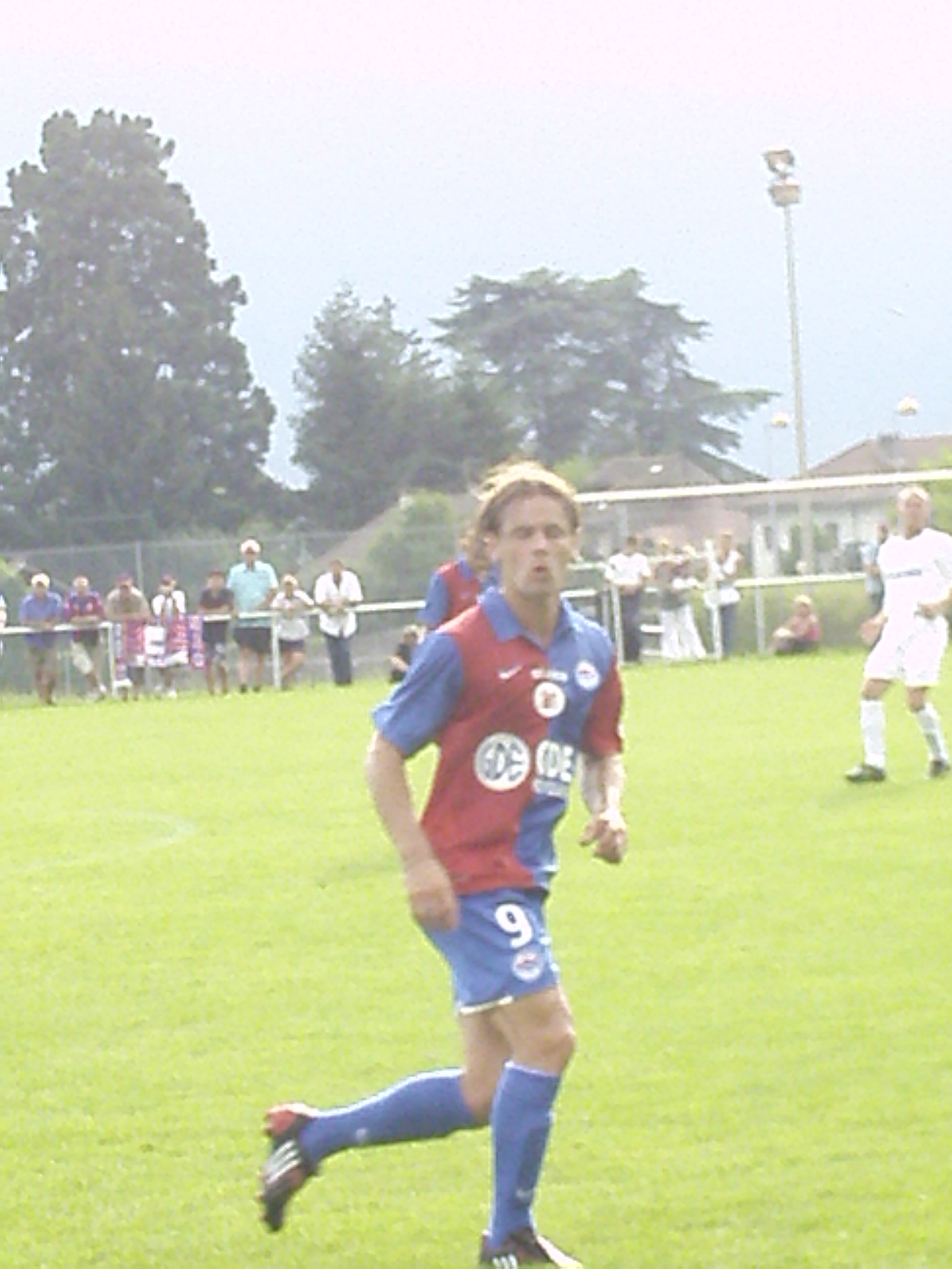 Steve_Savidan